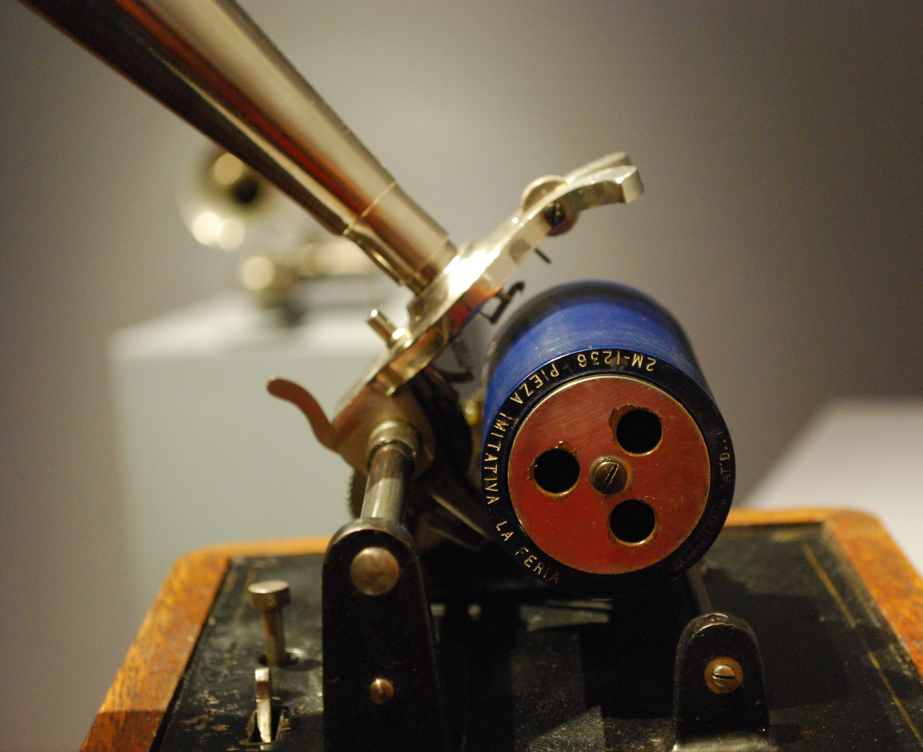 Edison phonograph cylinder displayed on a Columbia BK Jewel (1906) phonograph of the Salvador Velez collection